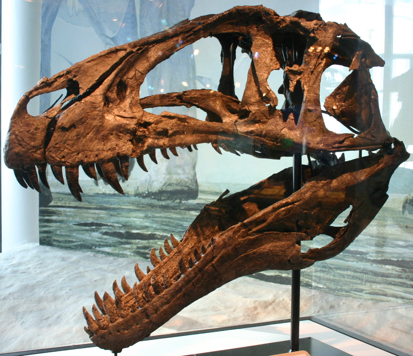 Acrocanthosaurus, North Carolina Museum of Natural Sciences.